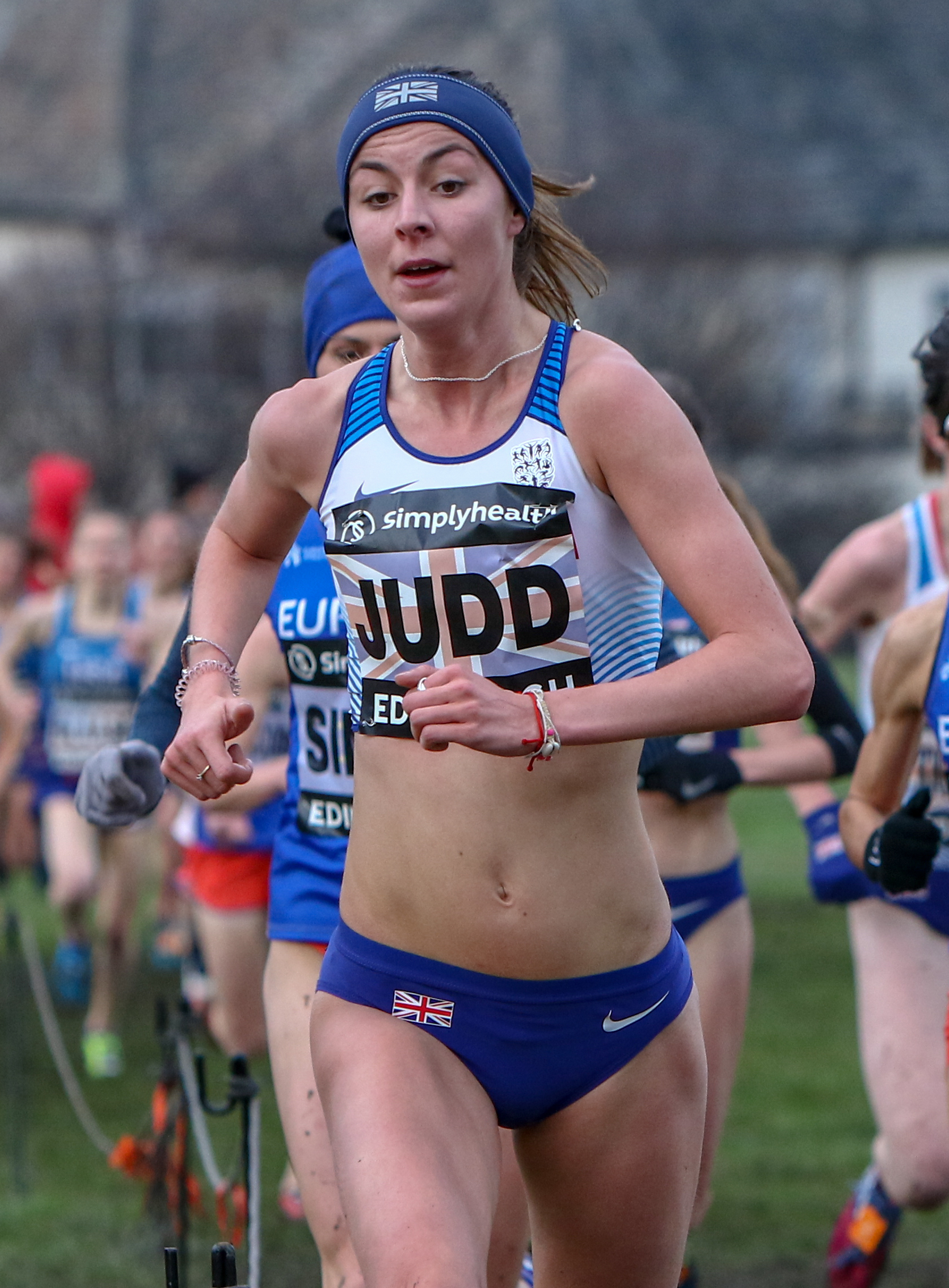 Great Edinburgh International Cross Country 2018 – Senior Women's 6km